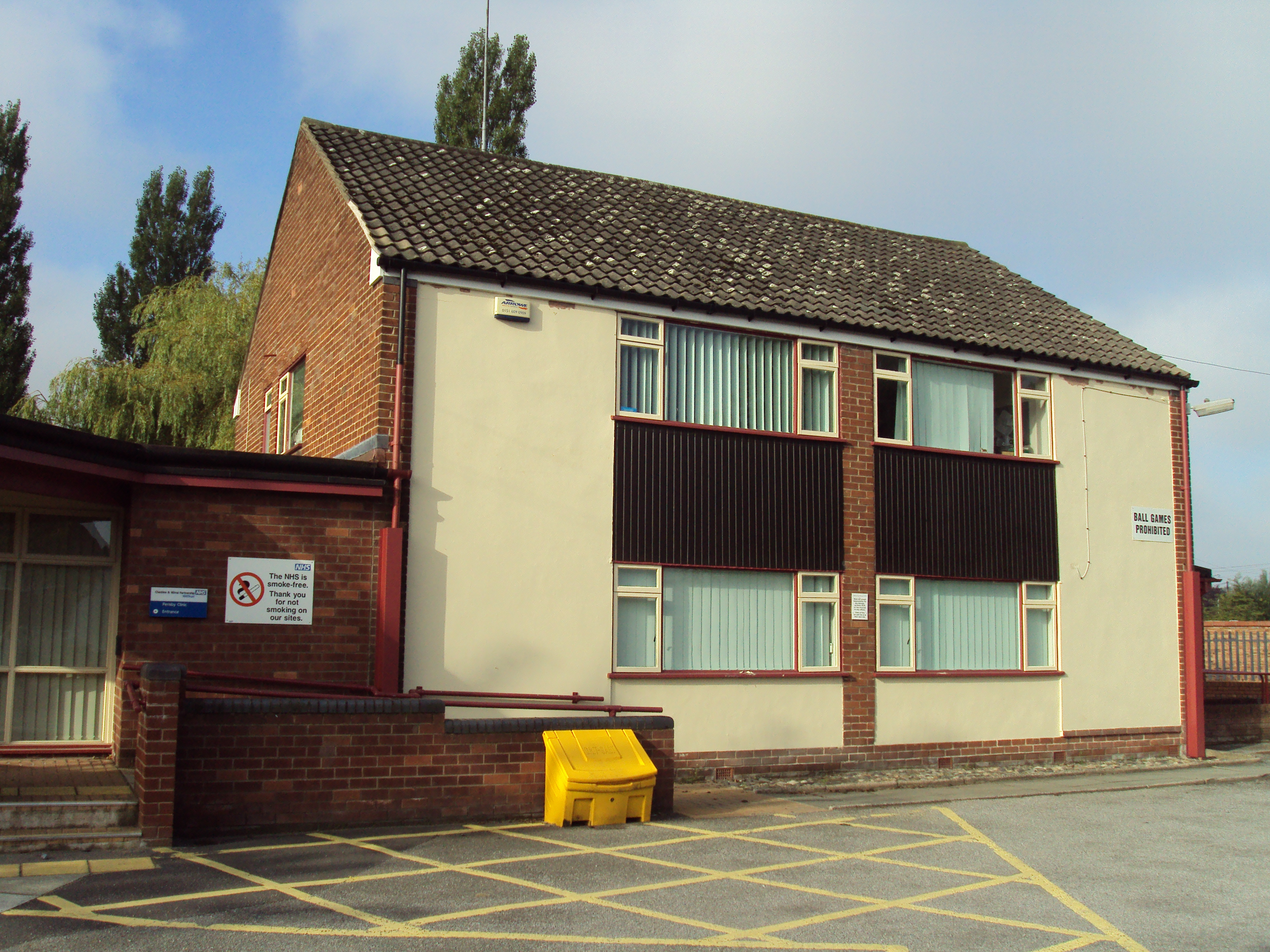 Pensby clinic on Pensby Road, Pensby, Wirral, England.